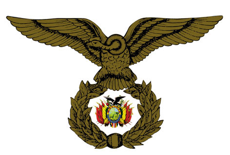 Emblem of Air Force Bolivia.